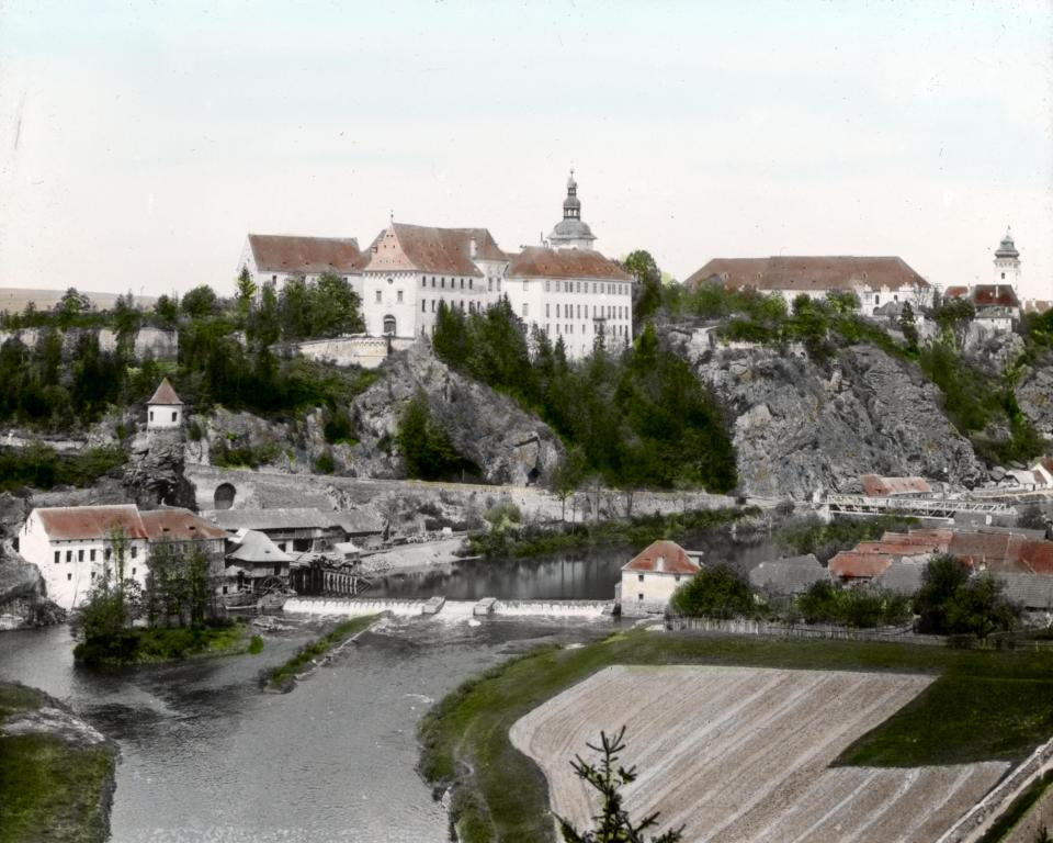 Bechyně on the beggining of 20th century, hand colored slide Author: Šechtl and Voseček Uploaded with approval of the inheritors of copyright